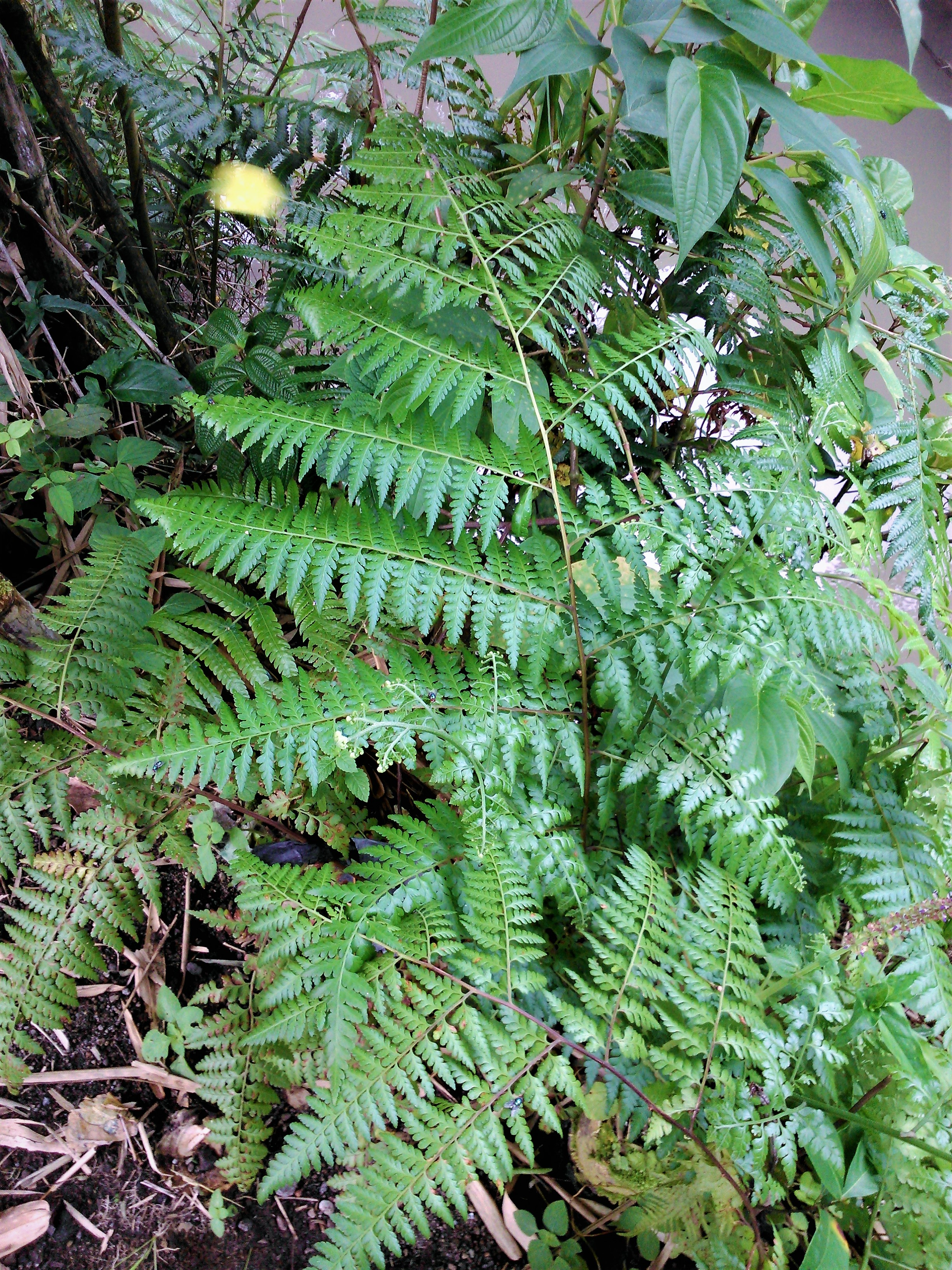 Upperside of M. speluncae blades. Gunung Gono, Banyubiru village, Dukun district, Magelang regency, Central Java. Elev. ca. 500 m above s.l.